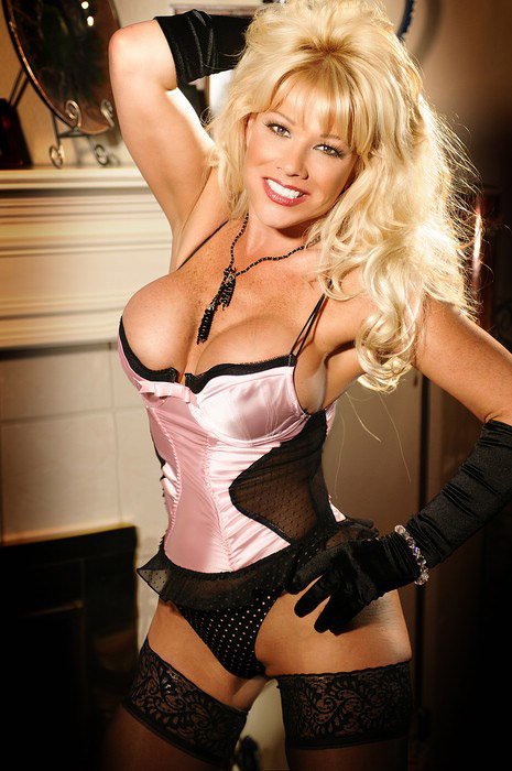 Air Force Amy recent photo.